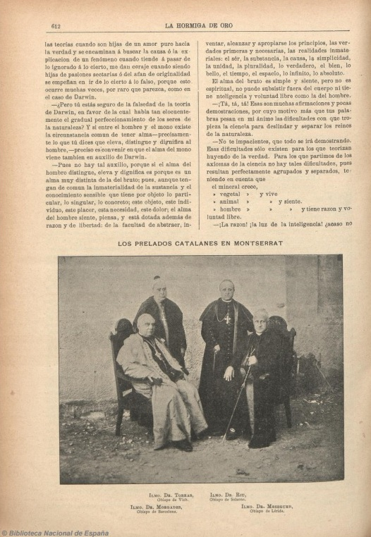 La Hormiga de Oro